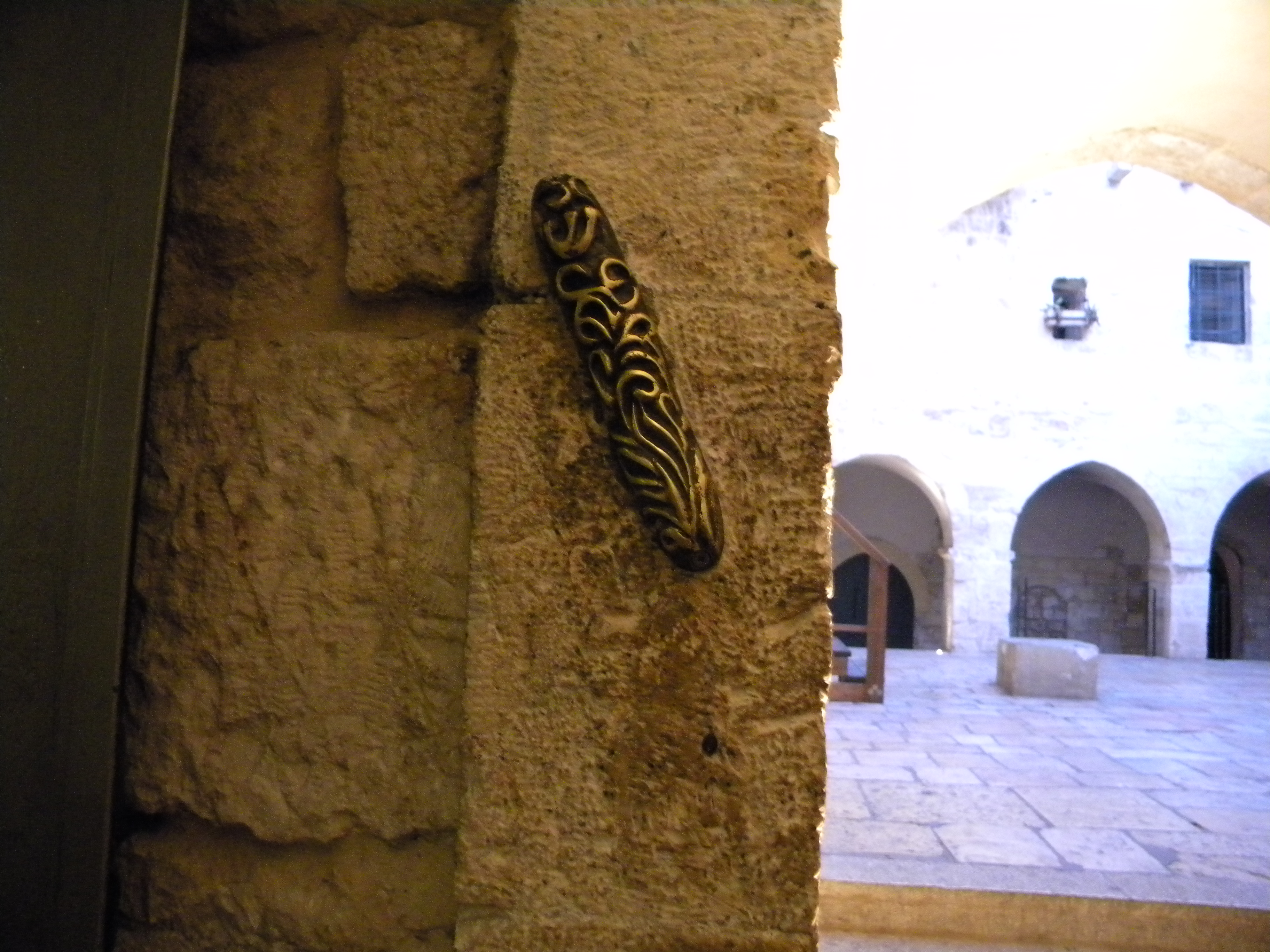 ISRAEL, Jerusalem, Mount Zion, King David's tomb; DI is 11-3000-004 (2) (Mezuza)